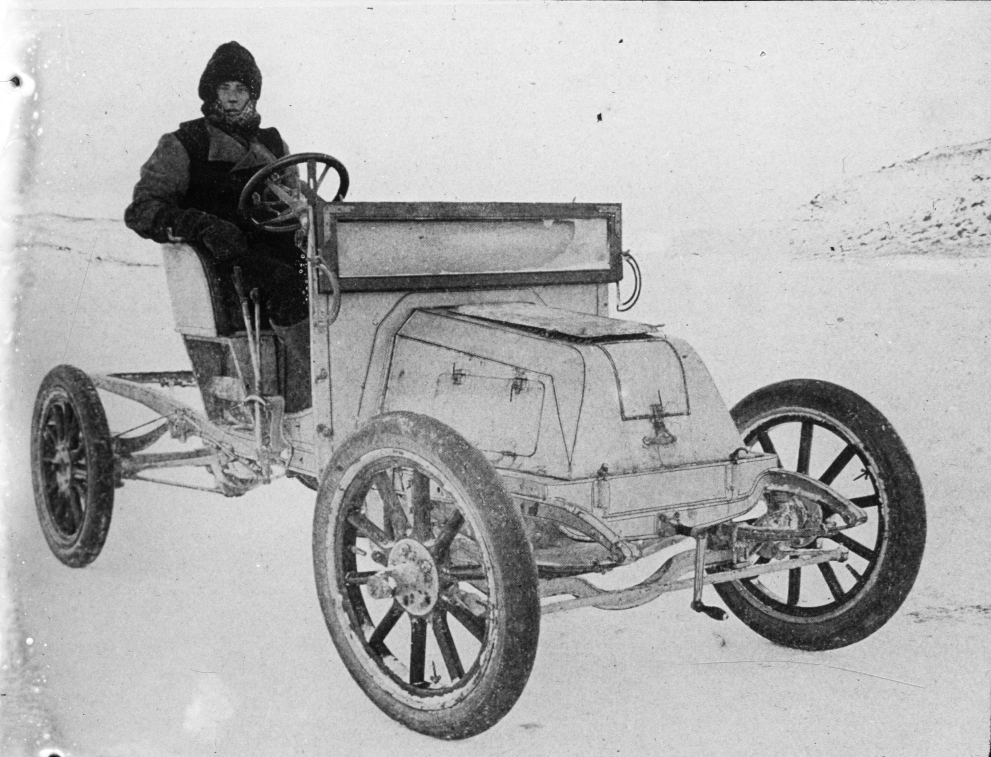 Photographs of the Nimrod Expedition (1907-09) to the Antarctic, led by Ernest Sheckleton